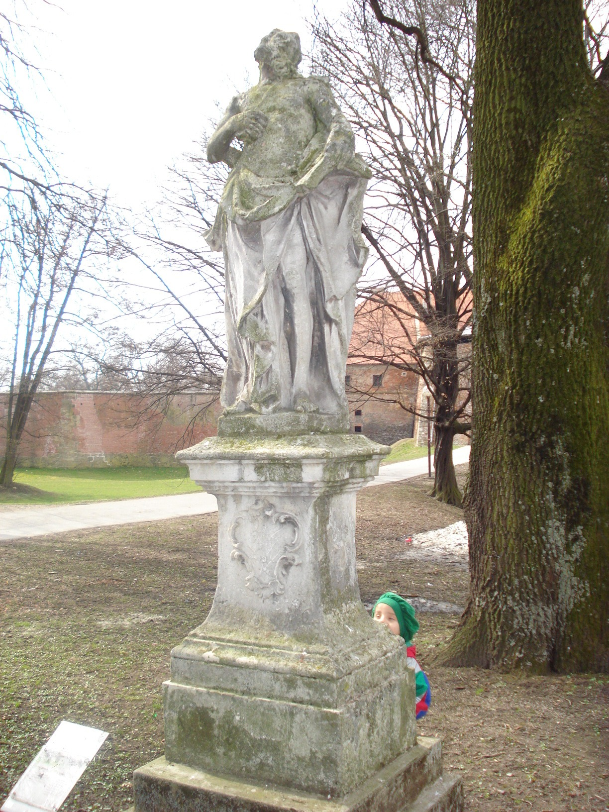 St. Jerome (Saint Hieronymus) statue from 1766 in Čakovec